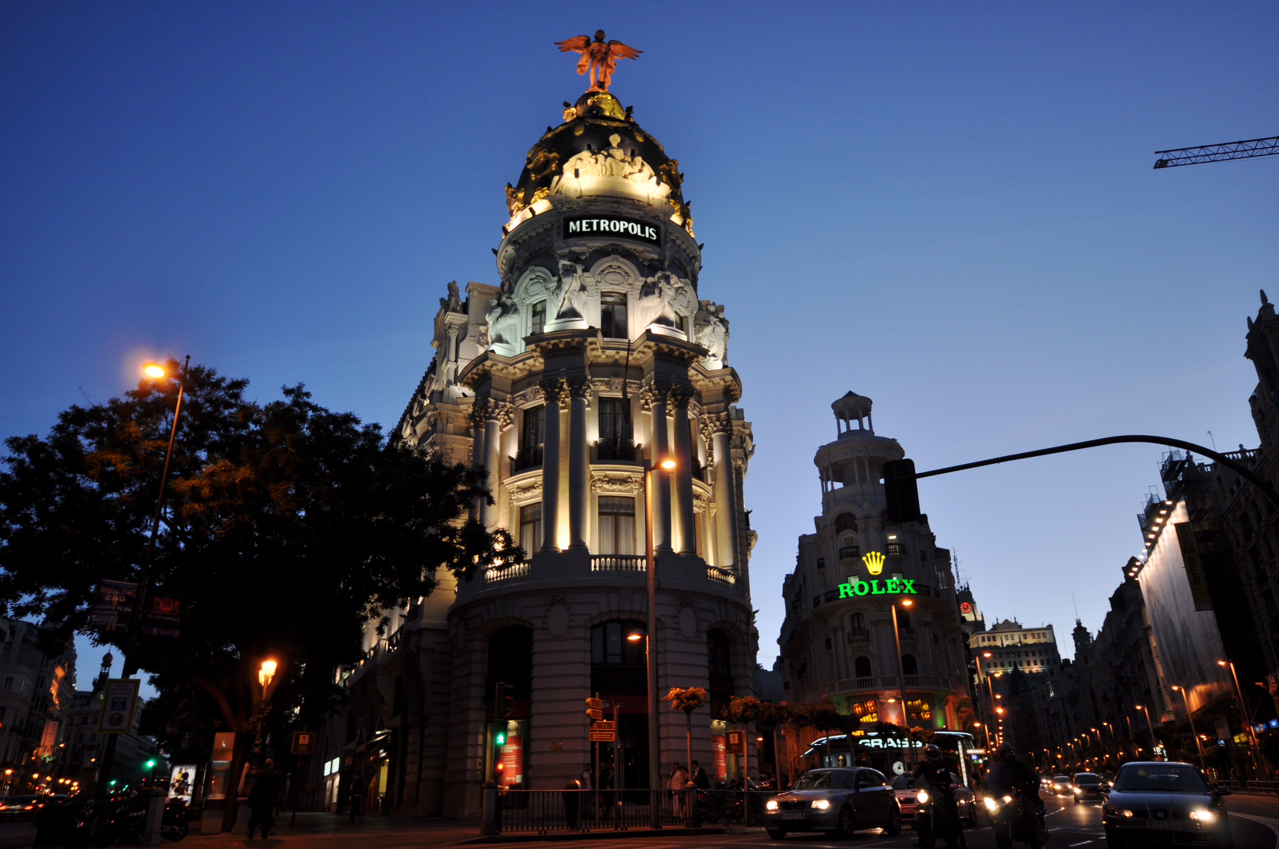 Night view from Calle de Alcalá (street) in Madrid (Spain). At the centre, Metropolis Building (1911). At the right, Gran Vía (street).